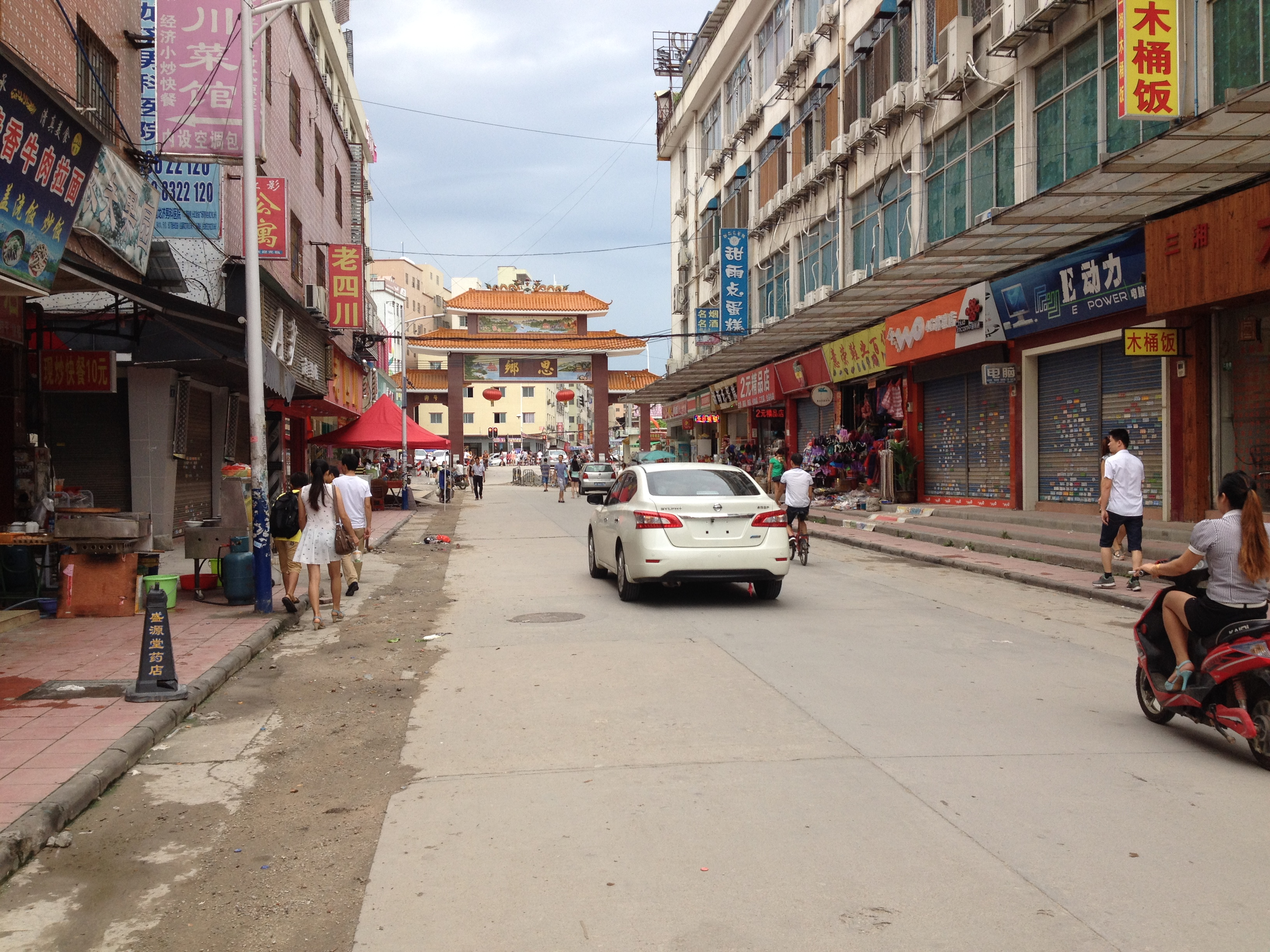 Nanling Village, Baiyun District, Guangzhou, Guangdong, China. The Chinese characters (思鄉, written from right to left) on the back of the archway mean "homesick".